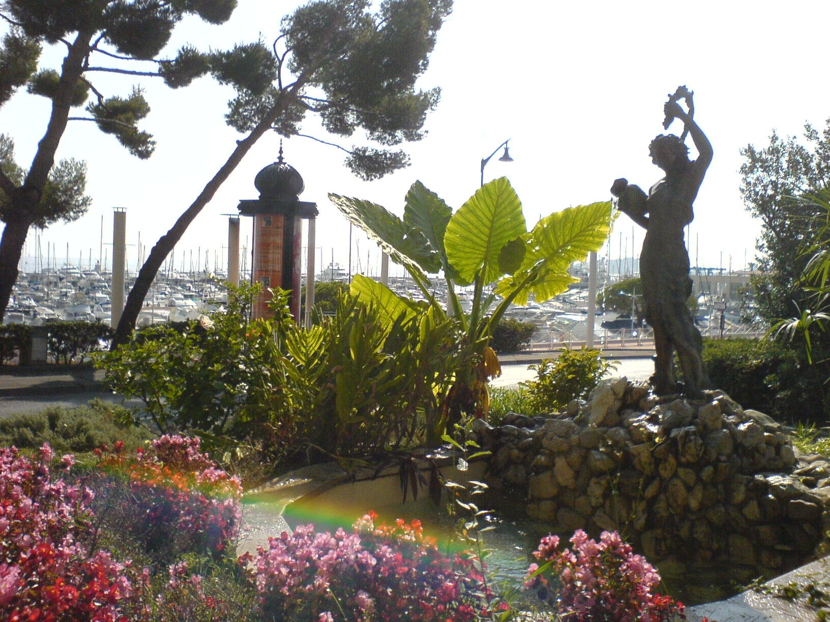 Beaulieu-sur-Mer, Green area near harbour